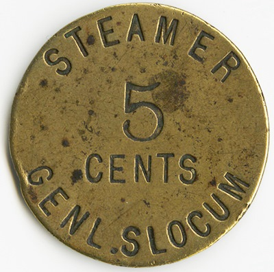 This token was used as payment while on board the Knickerbocker Steamboat Company's vessel General Slocum. It was in the pocket of a survivor when the boat caught fire and sank in 1904. This token is in the collection of The Mariners' Museum in Newport News, VA.